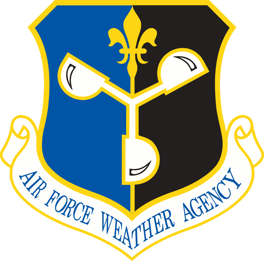 Emblem of the Air Force Weather Agency of the United States Air Force